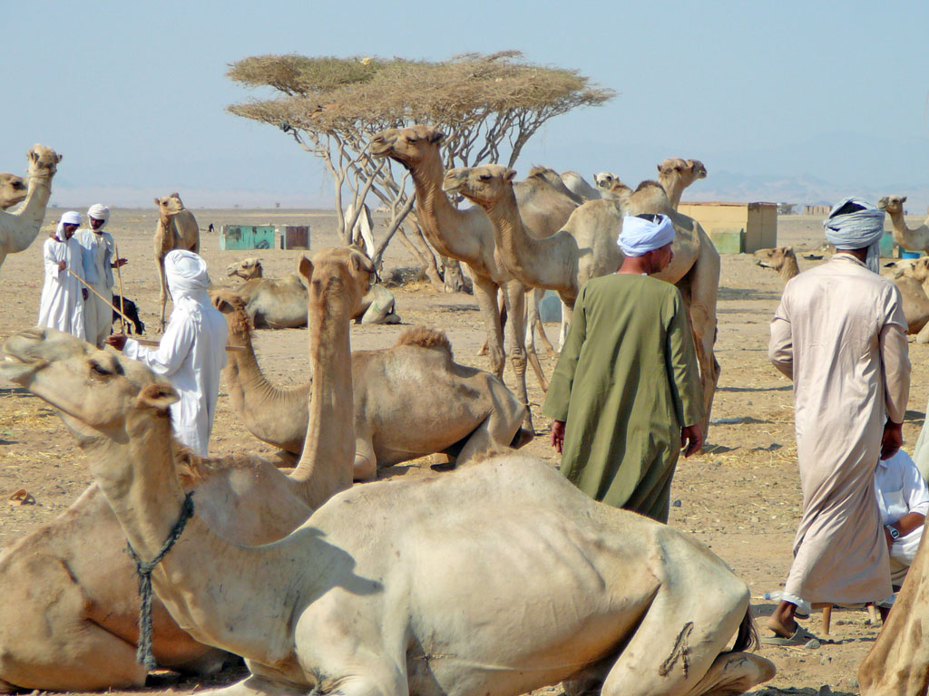 Camel market Asch-Schaltin / Southeast-Egypt (Serie 5/10)